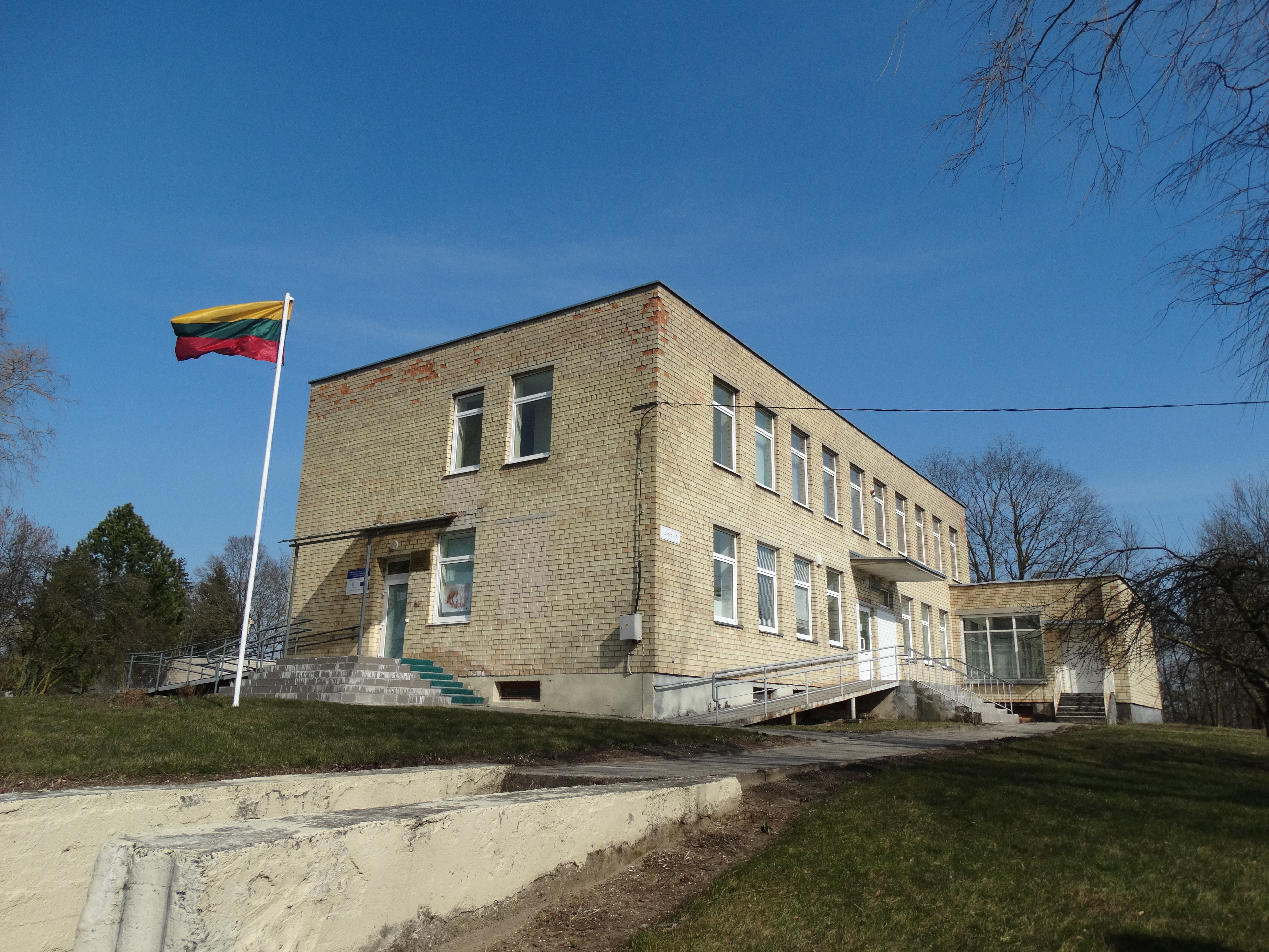 Eldership, Taujėnai, Ukmergė district, Lithuania